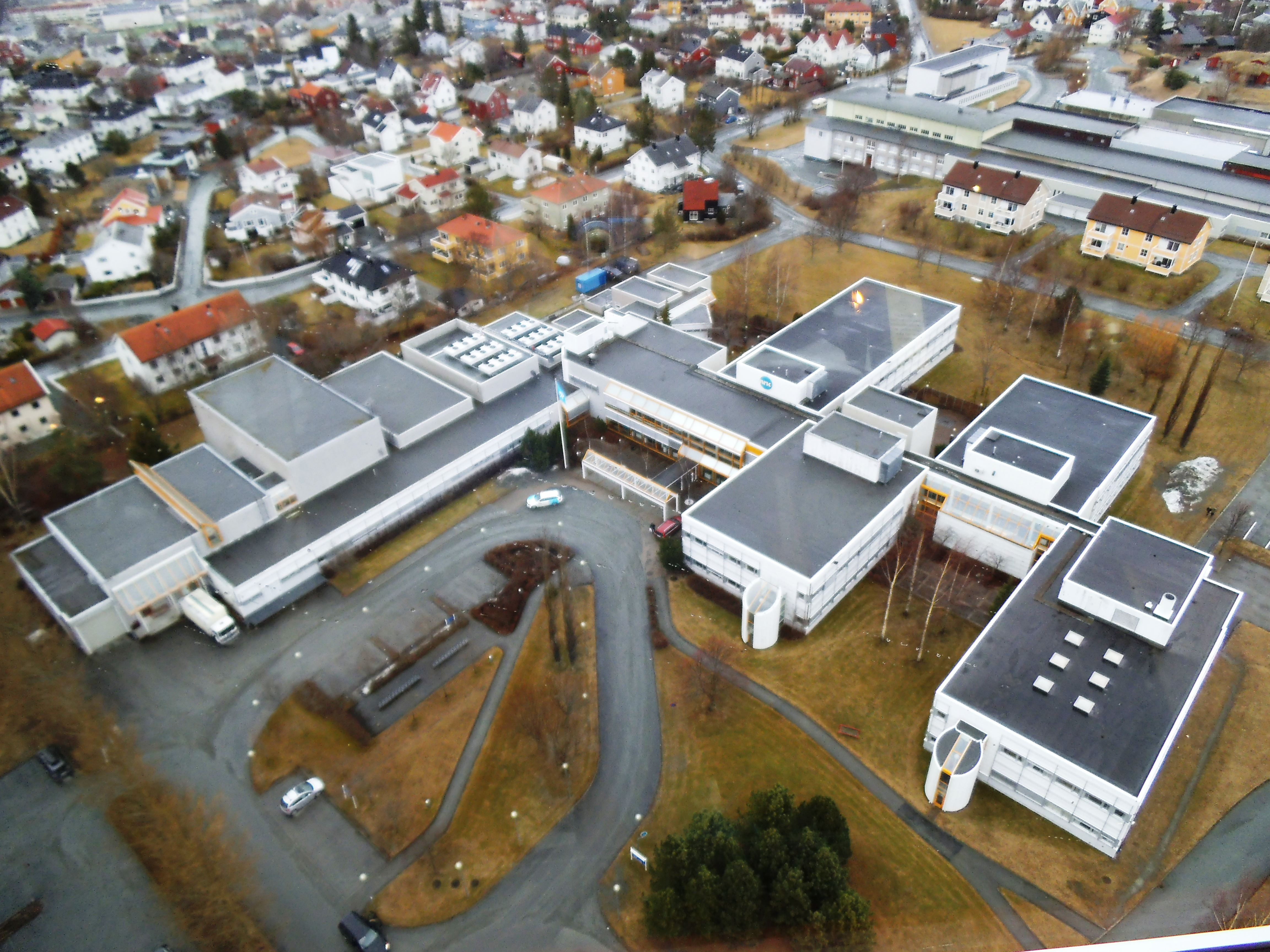 Mediehuset NRK Trøndelag is the headquarter of NRKs local division in Trøndelag.